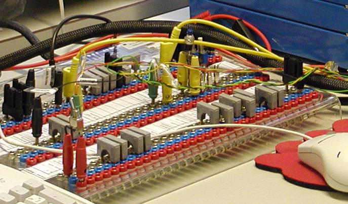 Test board with banana jacks and plugs in a test configuration for car ECUs